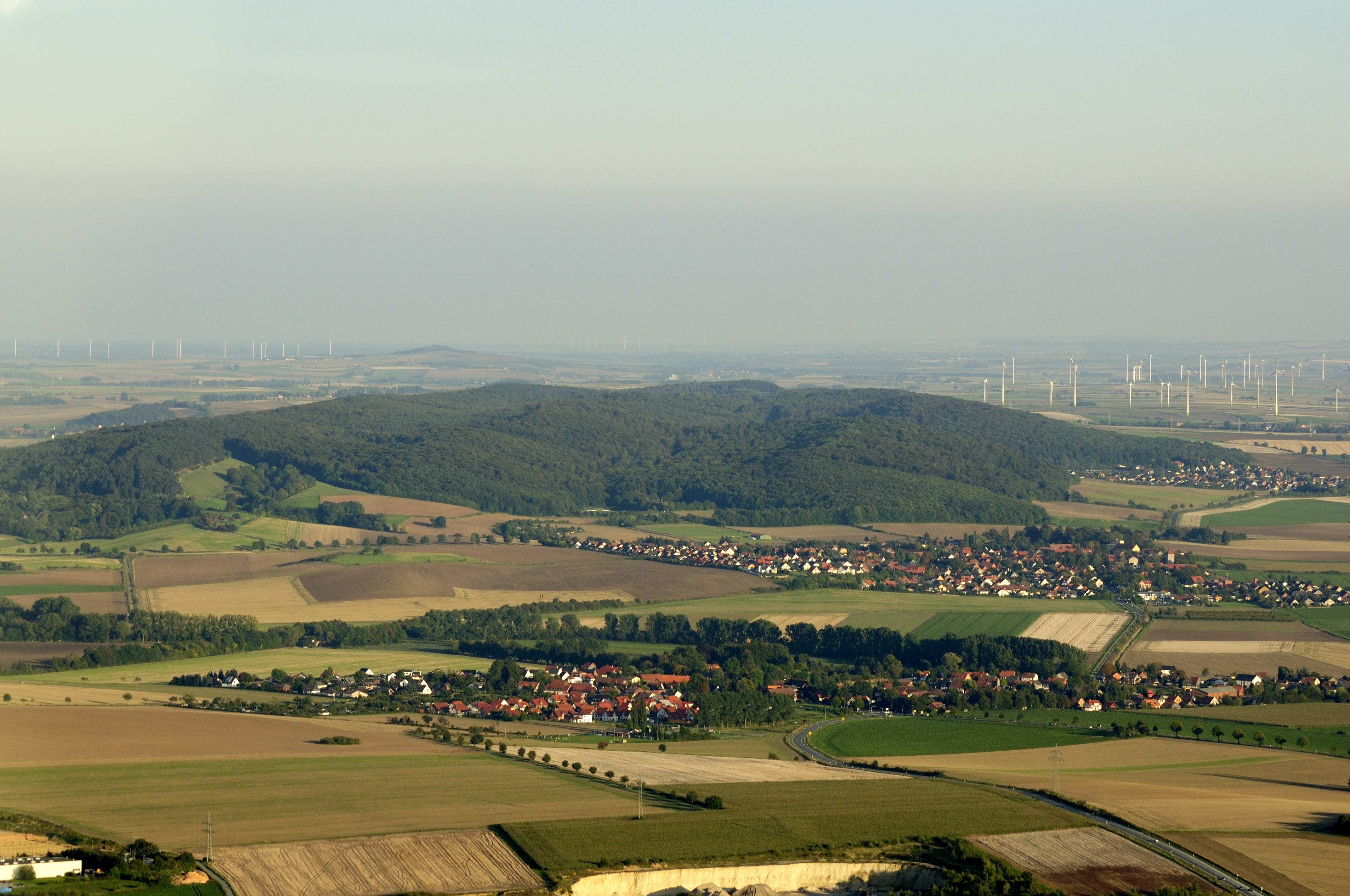 The ridge "Asse" south of Wolfenbüttel and Braunschweig (Brunswick), Germany